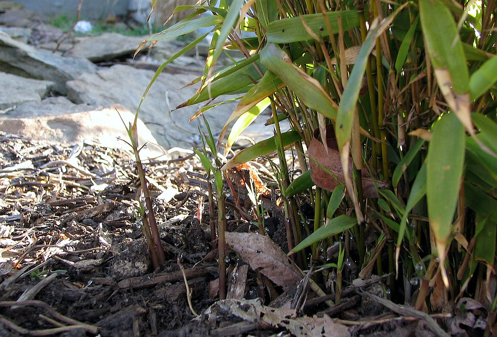 New shoots in April of 2007. Fargesia dracocephala